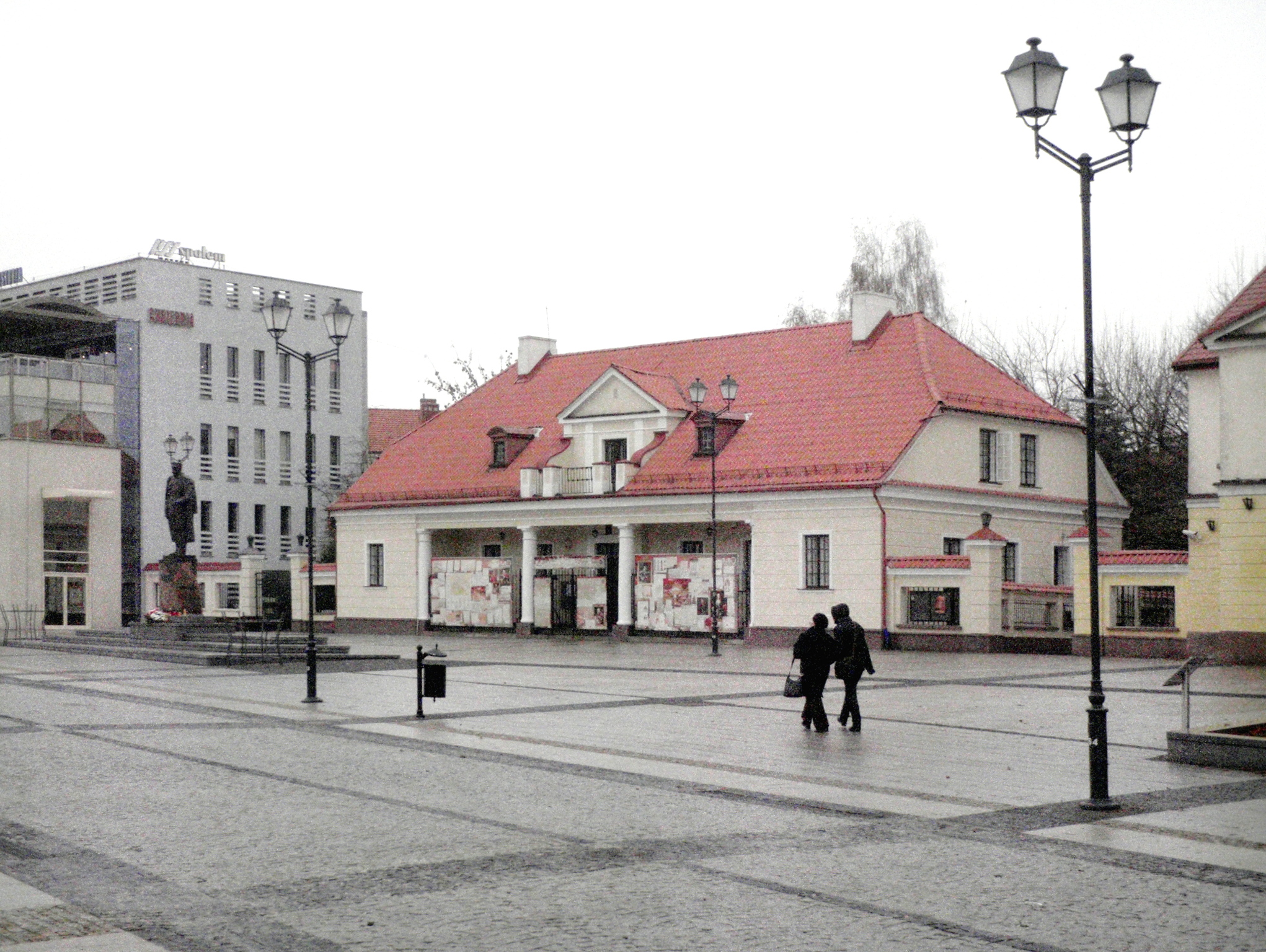 State Archive in Białystok